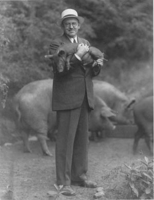 A black & white photograph of a Ralph Flanders holding a piglet